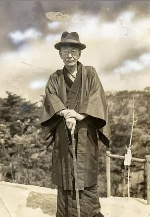 Murakami Kijo in his late life.